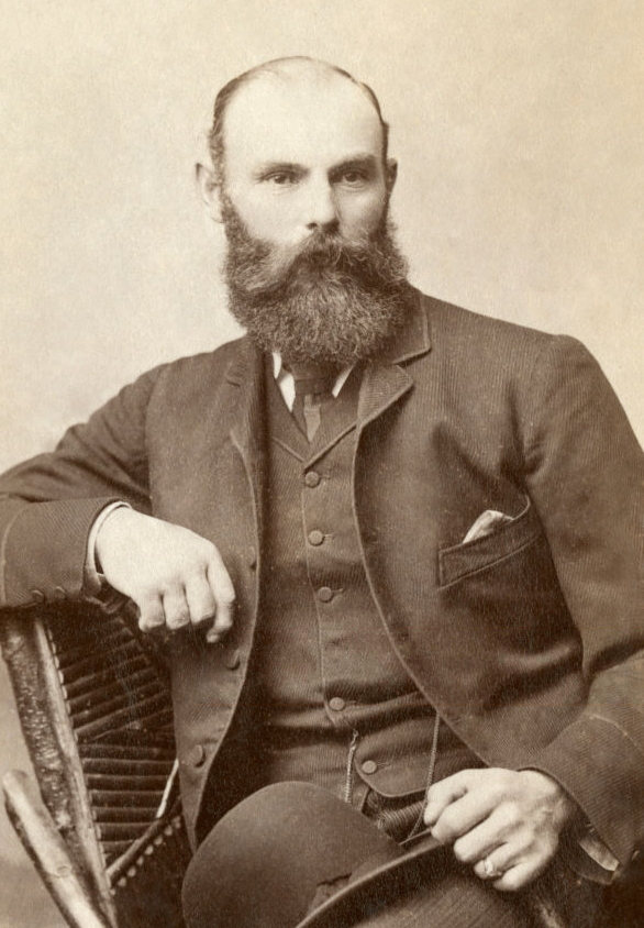 Australian cricketer Harry Boyle, a member of the Australian touring team to England, circa 1880.